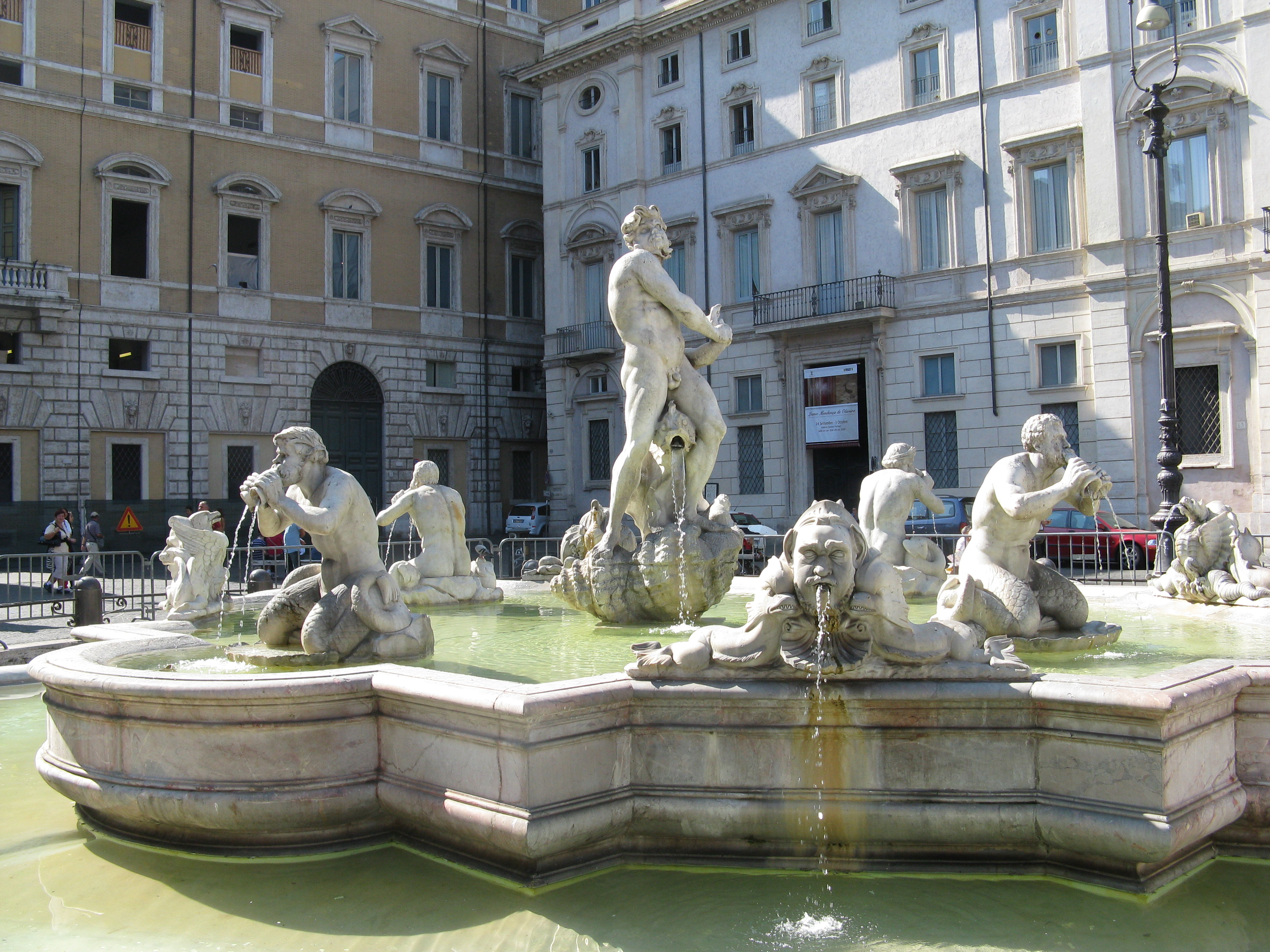 Fontana del Moro at Piazza Navona.